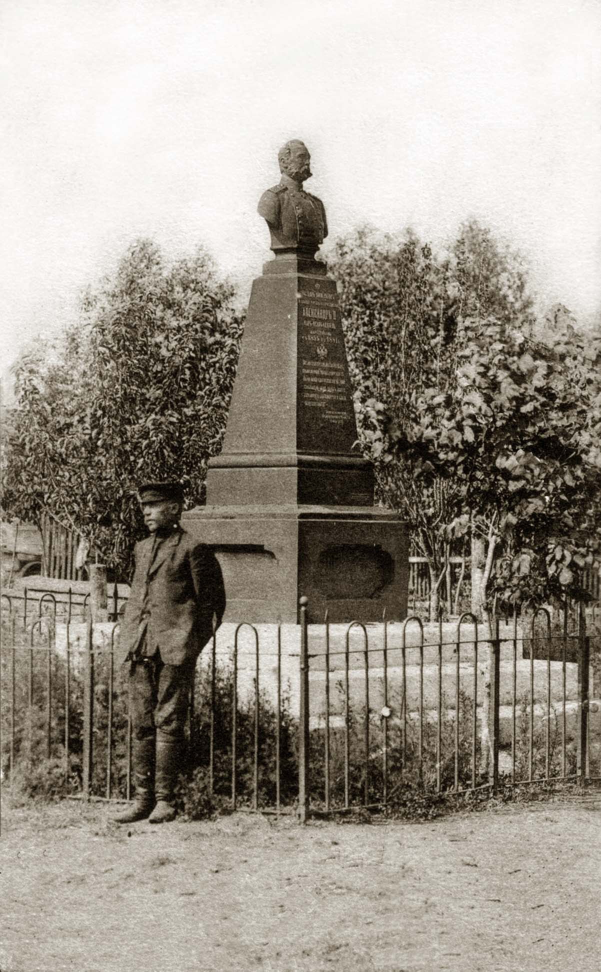 Rtishchevo. Monument to Alexander II